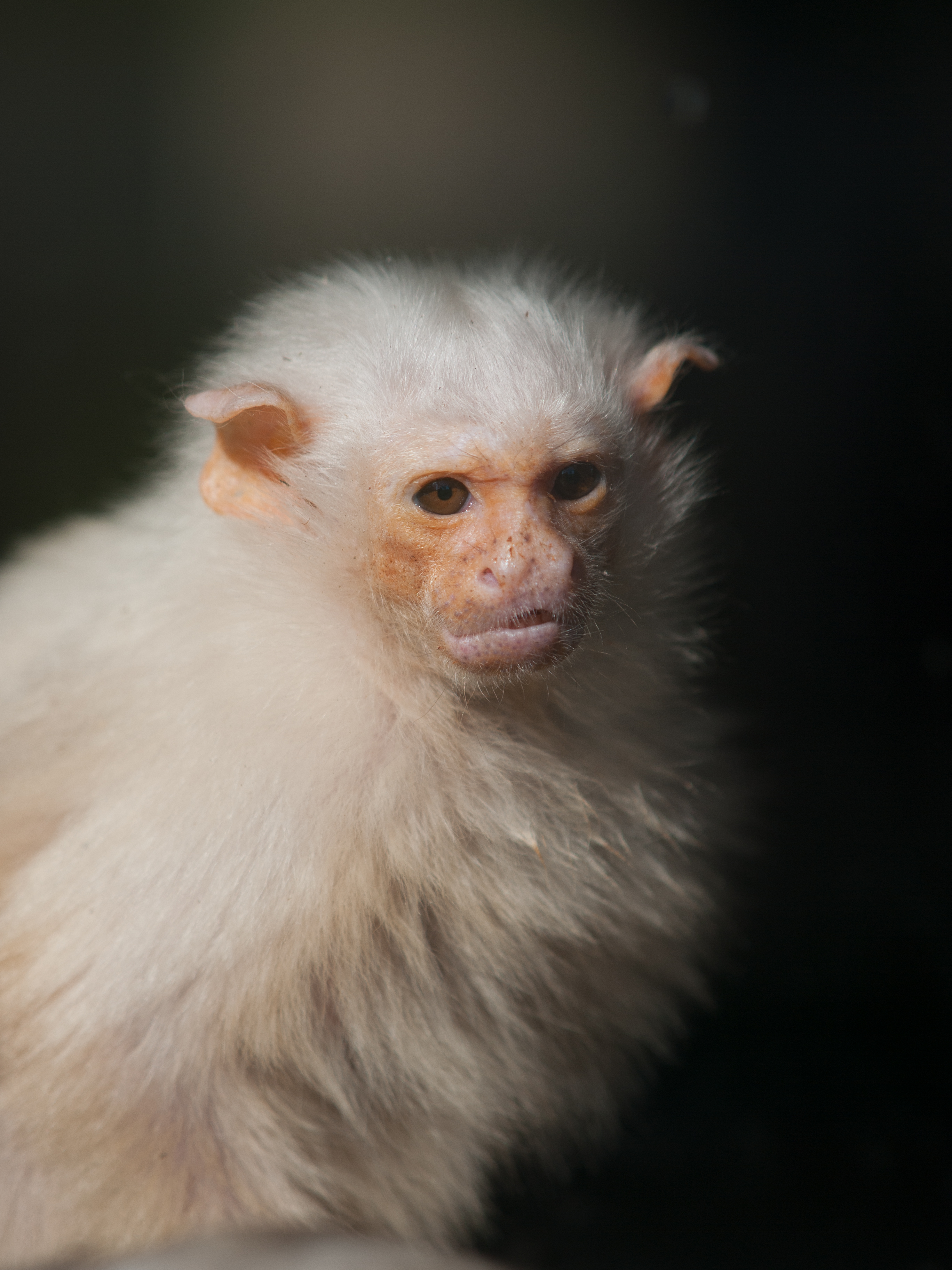 Silvery Marmoset at Whipsnade Zoo PERMISSION TO USE: you are welcome to use this photo free of charge for any purpose including commercial. I am not concerned with how attribution is provided - a link to my flickr page or my name is fine. If the used in a context where attribution is impractical, that's fine too. I want my photography to be shared widely. I like hearing about where my photos have been used so please send me links, screenshots or photos where possible.